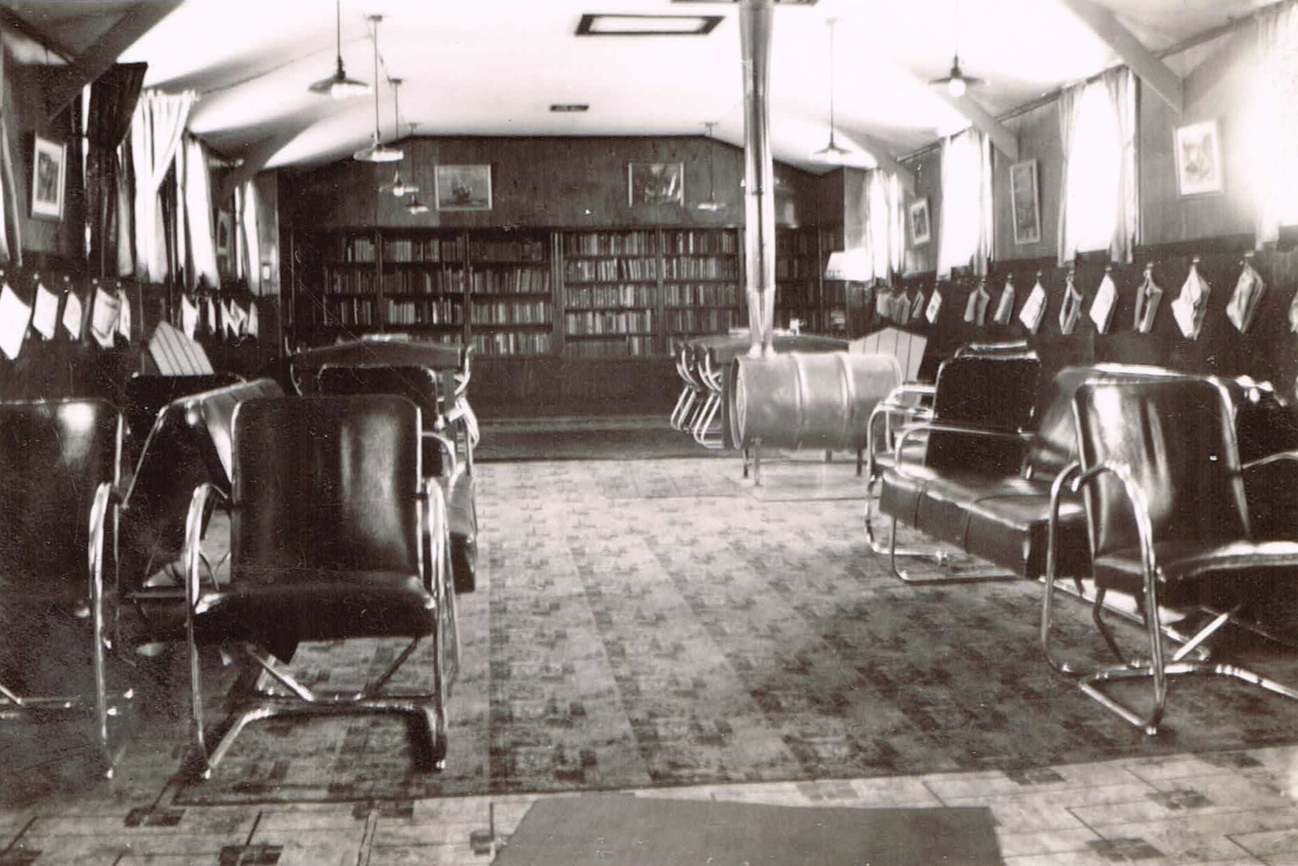 CCC Camp library or rec room (ca. 1939, unidentified location); photo taken by my grandfather, George A. Groeschl